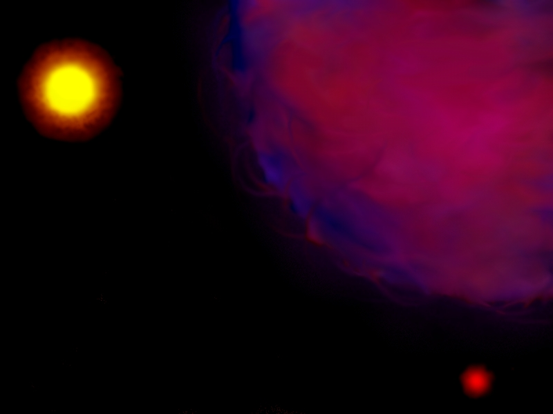 My imagination of planet Solaris and its two stars.